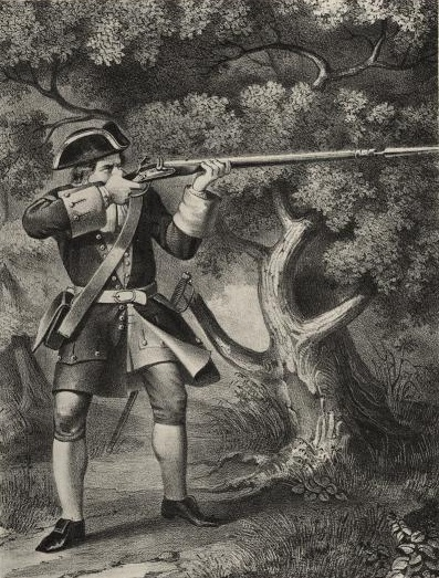 Russian infantry men in 1720-1732.